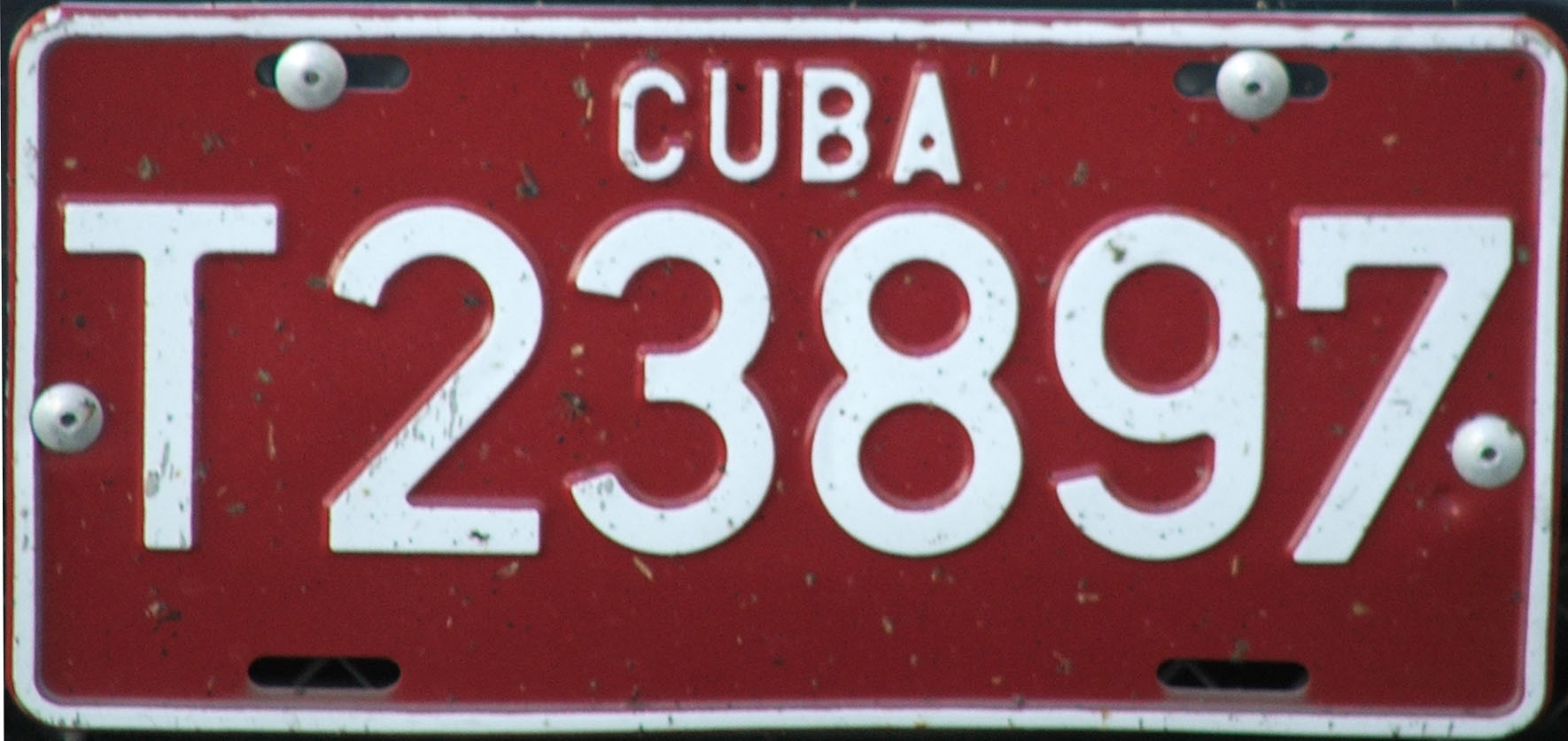 Cuban registration plate as seen in 2009.